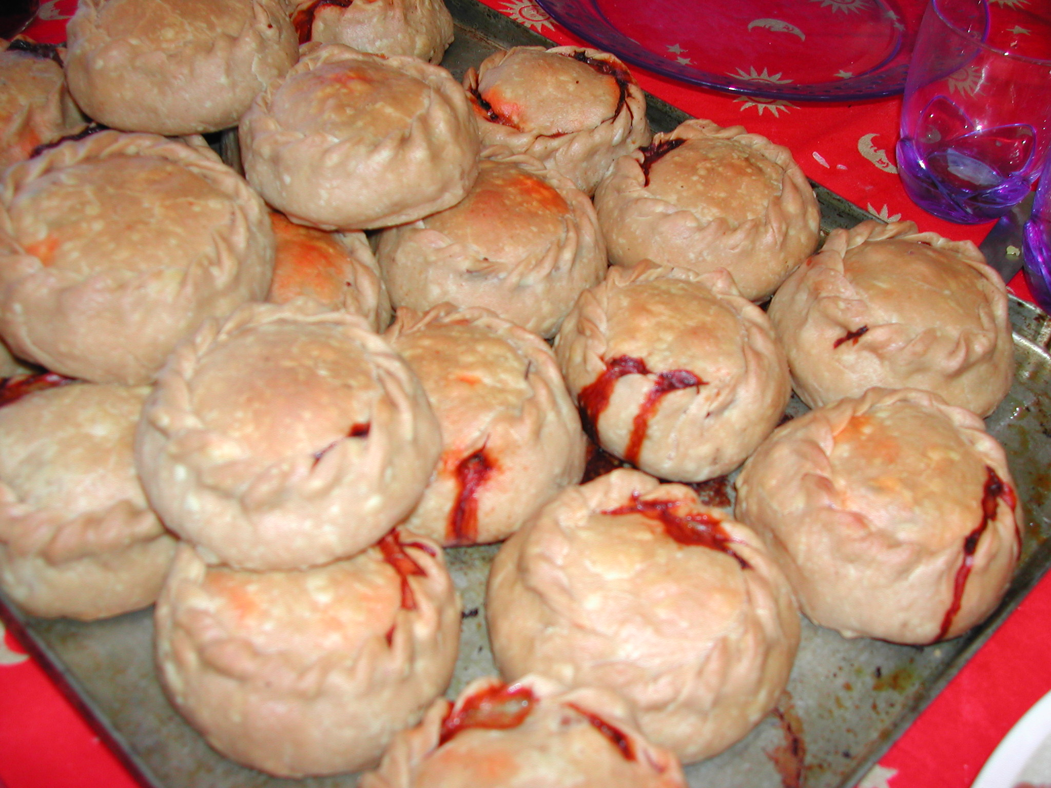 Mallorcan Easter cake, ready to eat,Mallorca.